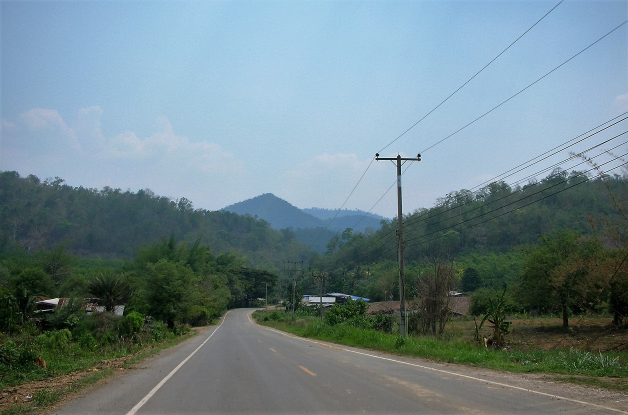 Road in Tambon Bong Ti, Kanchanaburi Province